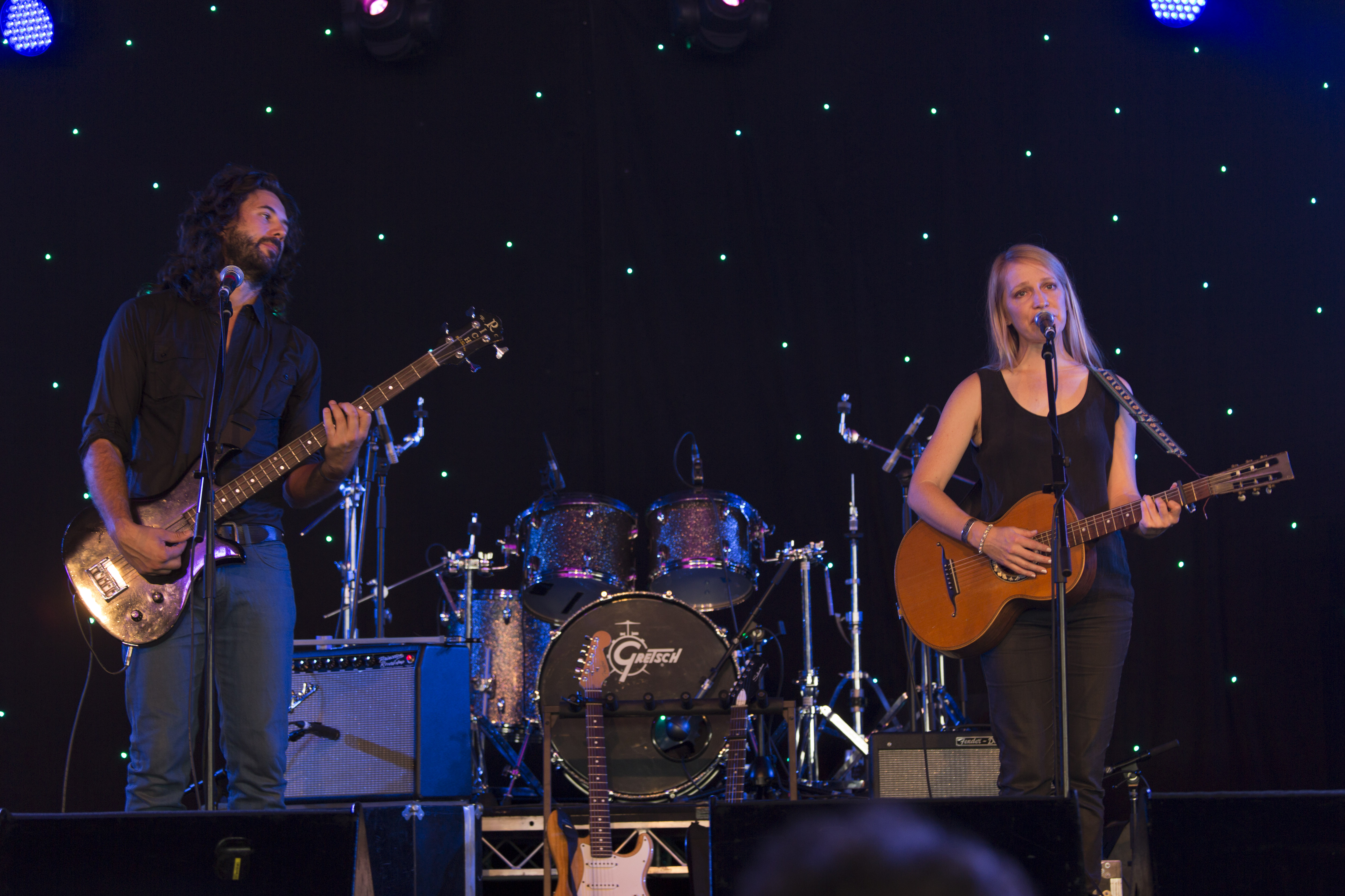 Byron Bay Bluesfest, 2015